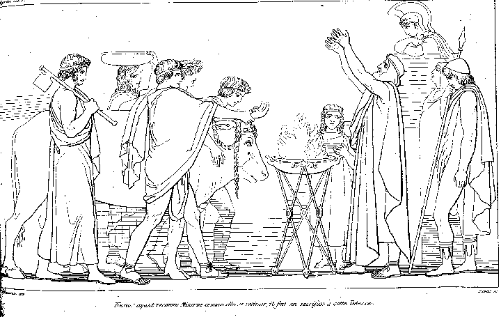 Illustrations of Odyssey